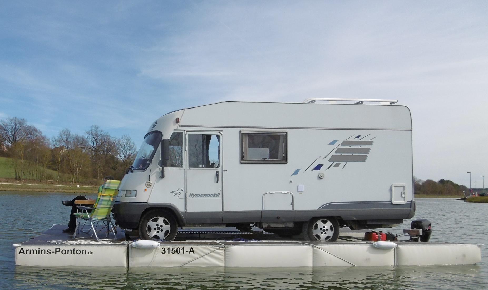 Armins pontoon in the water. The unfoldet car trailer makes the motorhome to a houseboat.